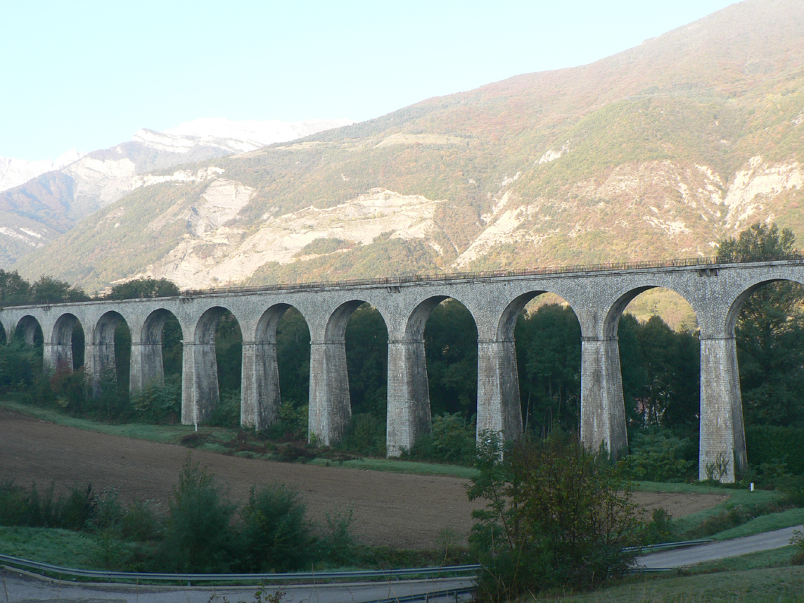 Rail viaduct in Vif (Isère, Rhône-Alpes, France)